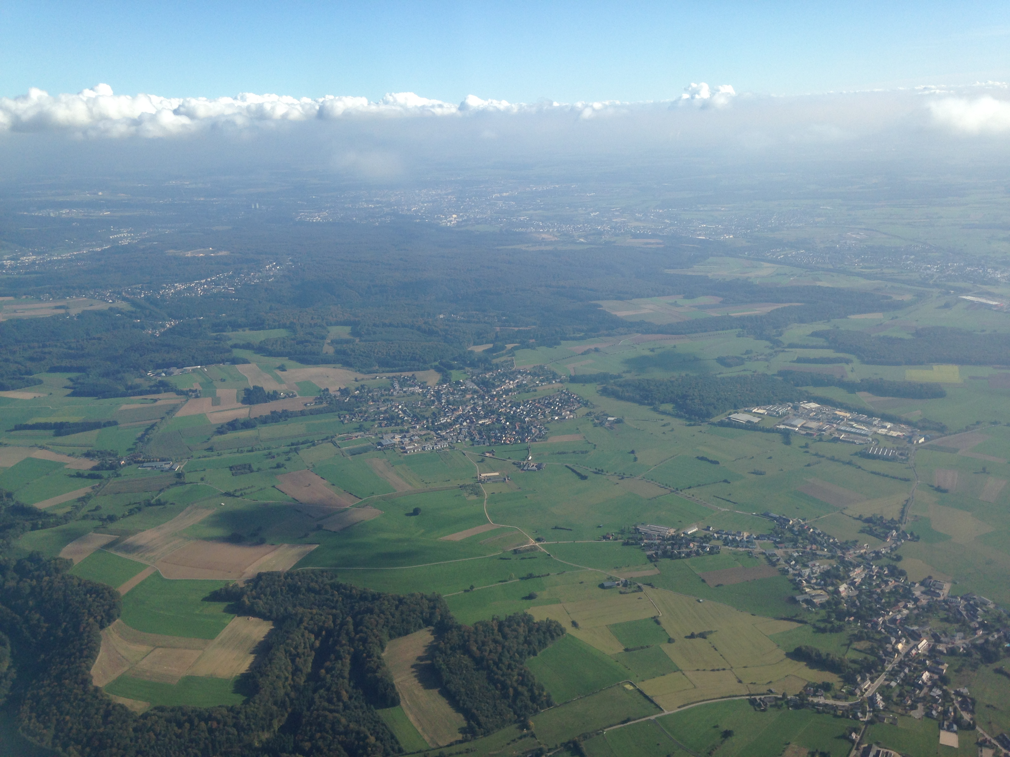 Aerial view of Kehlen (Kielen, middle) and Nospelt (Nouspelt, bottom-right) in Luxembourg.